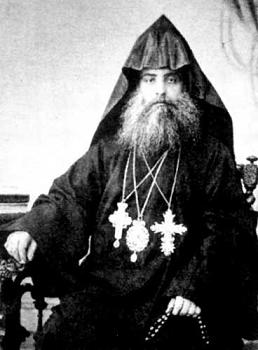 Armenian Catholicos Matt‘ēos II.